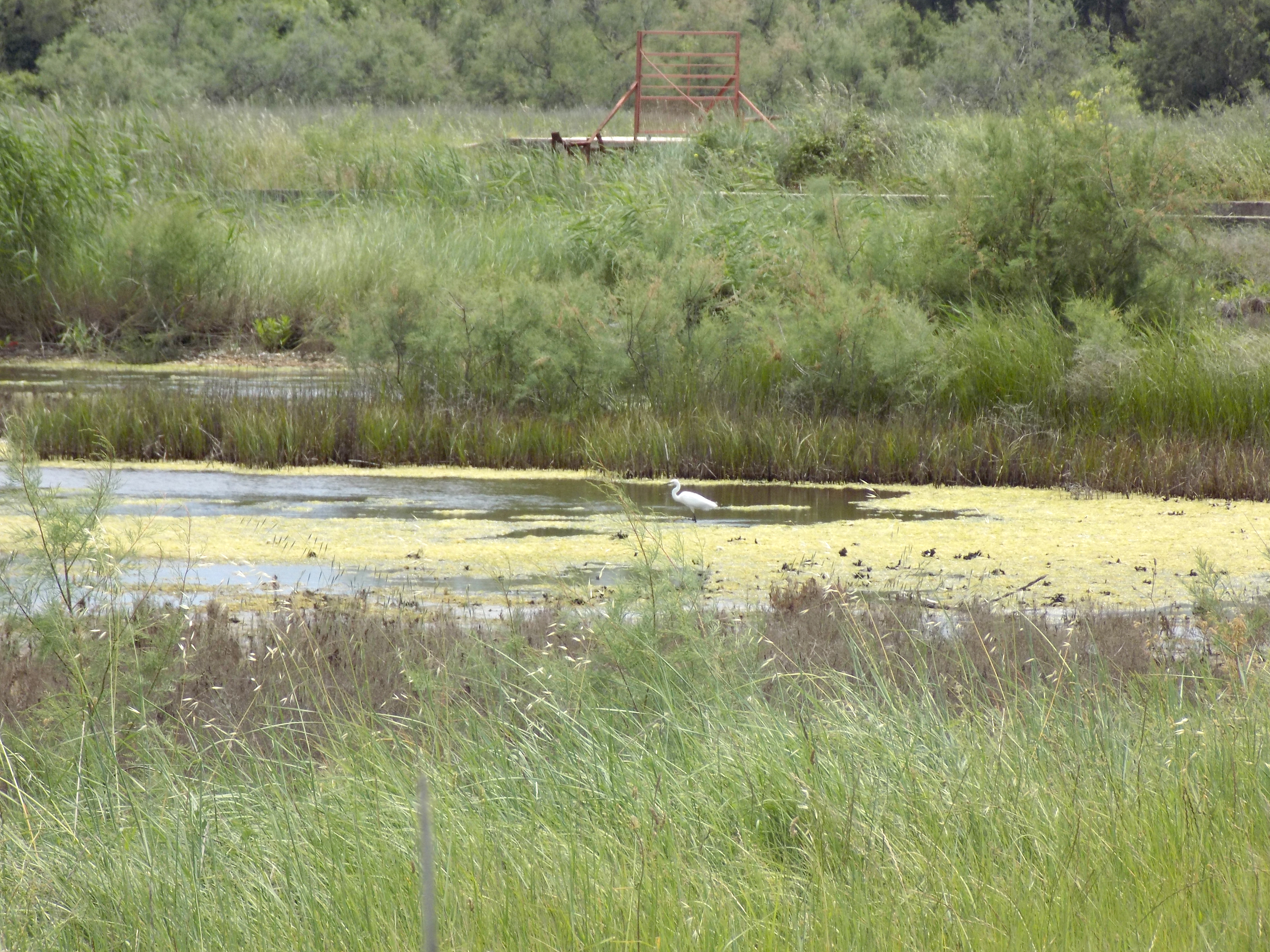 Ulcinj Salinas, important bird area - Little egret (Egretta garzetta)